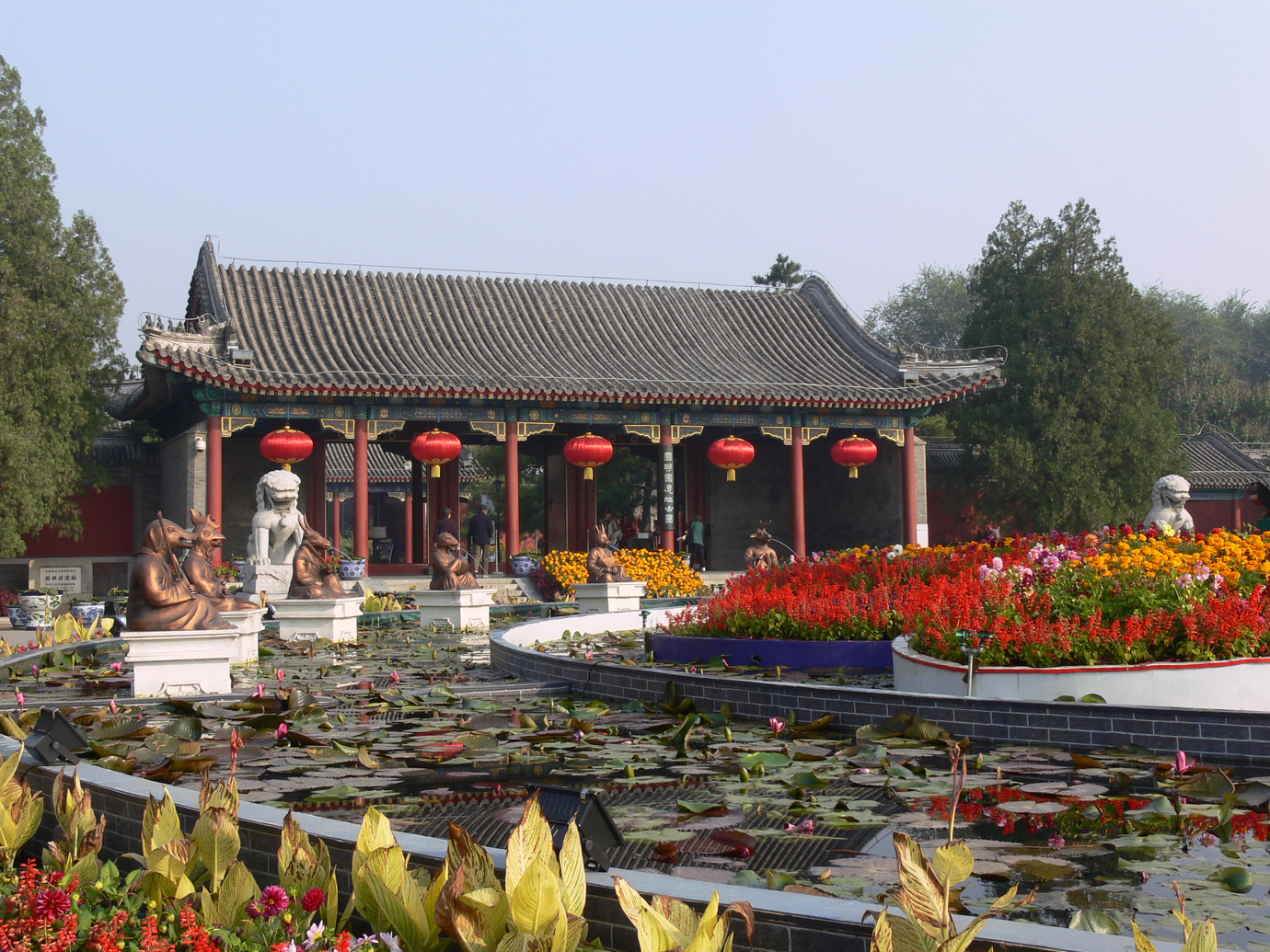 Entrance to Yuanmingyuan park 中文（中国大陆）: 圆明园遗址公园的修复的绮春园宫门，1987年在原址修复内、外两道宫门及宫墙、角门，作为圆明园遗址公园大门。